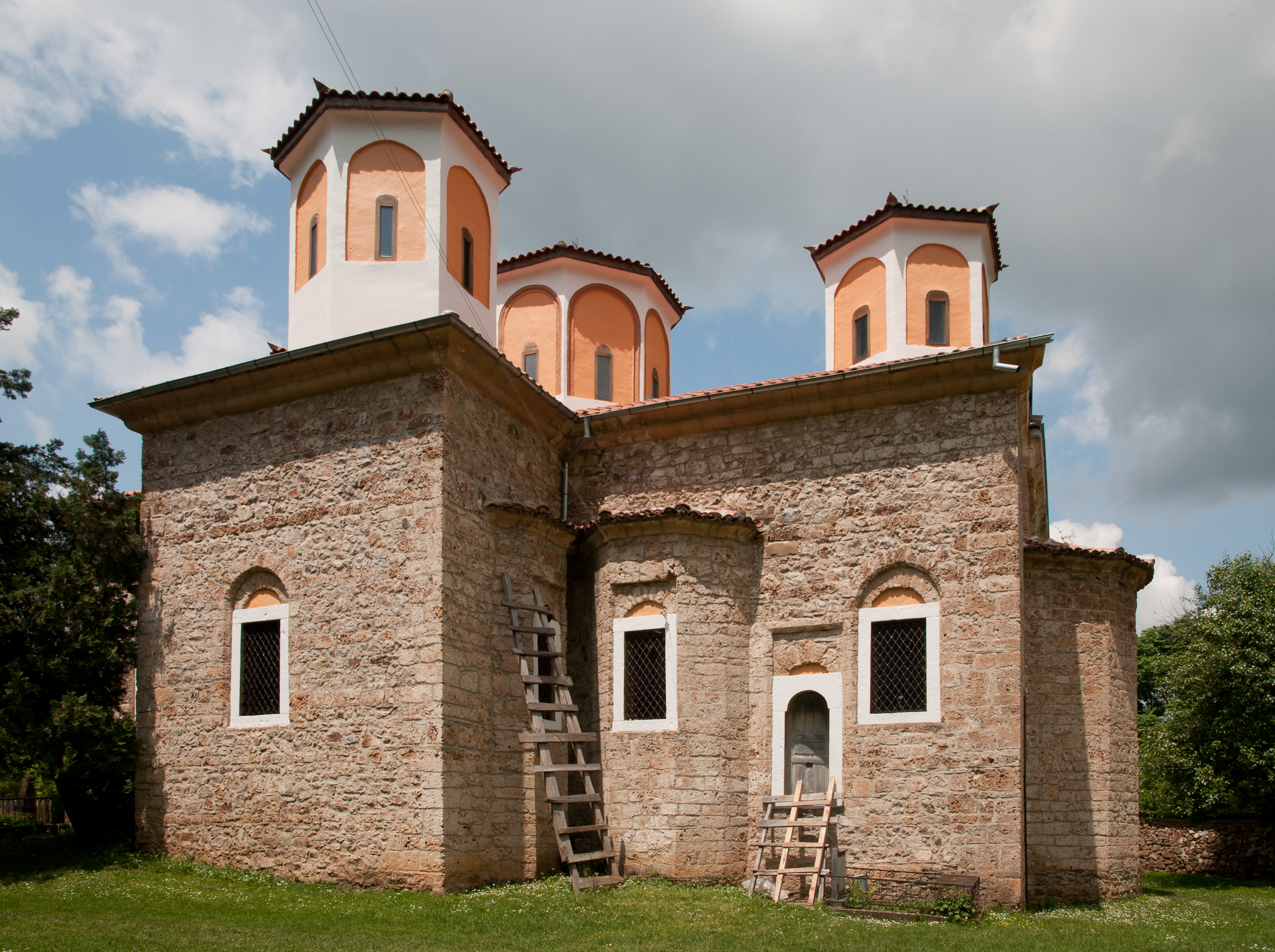 Holy Trinity Katholikon at Etropole Monastery, Bulgaria.